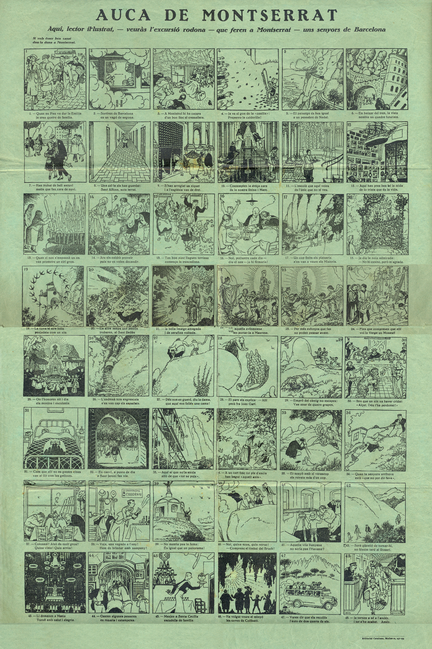 “Auca de Montserrat” (traditional catalan comic strip) from the year 1923.